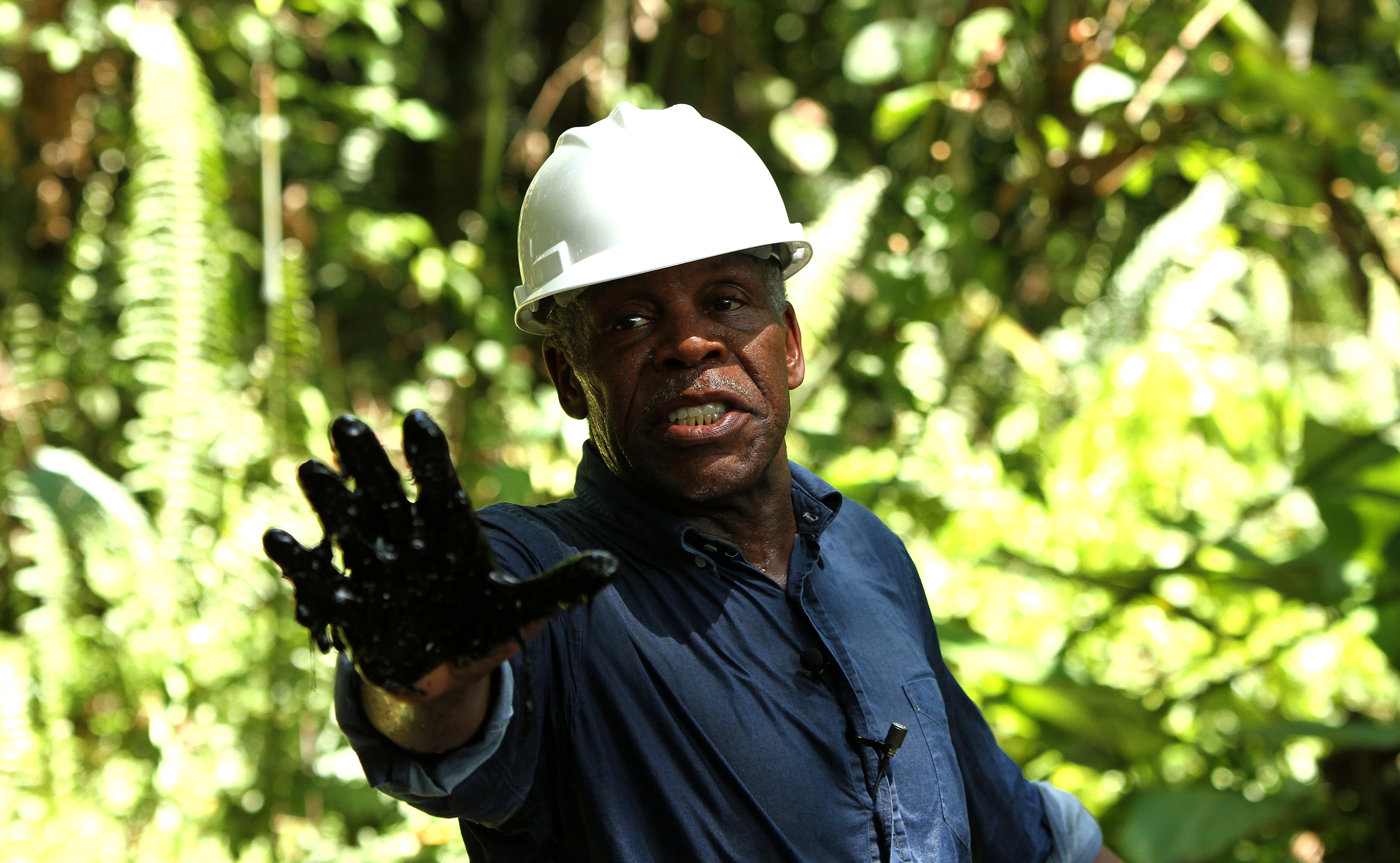 Shushufindi (Sucumbíos). 2013. A visit of the campaign "Chevron's dirty hand" was realized by the American actor Danny Glover, and confirmed the contamination left by Chevron in hidden pools of toxic waste in the Ecuadorian Amazon.